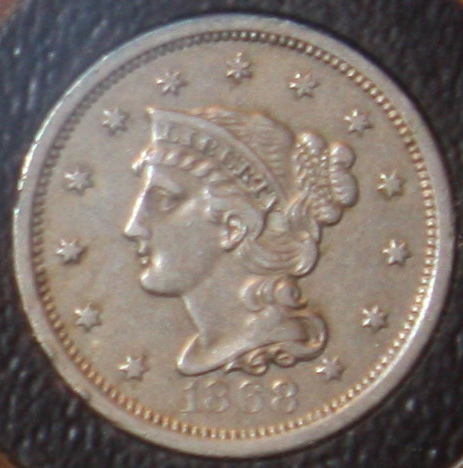 Experimental ten-cent coin (the size of a large cent) made of copper-nickel. The pieces took too much force to strike, and the project was abandoned. There's discussion of this in Don Taxay, The U.S. Mint and Coinage at pages 246 to 248. From the collection of the Money Museum of the American Numismatic Association, Colorado Springs, CO